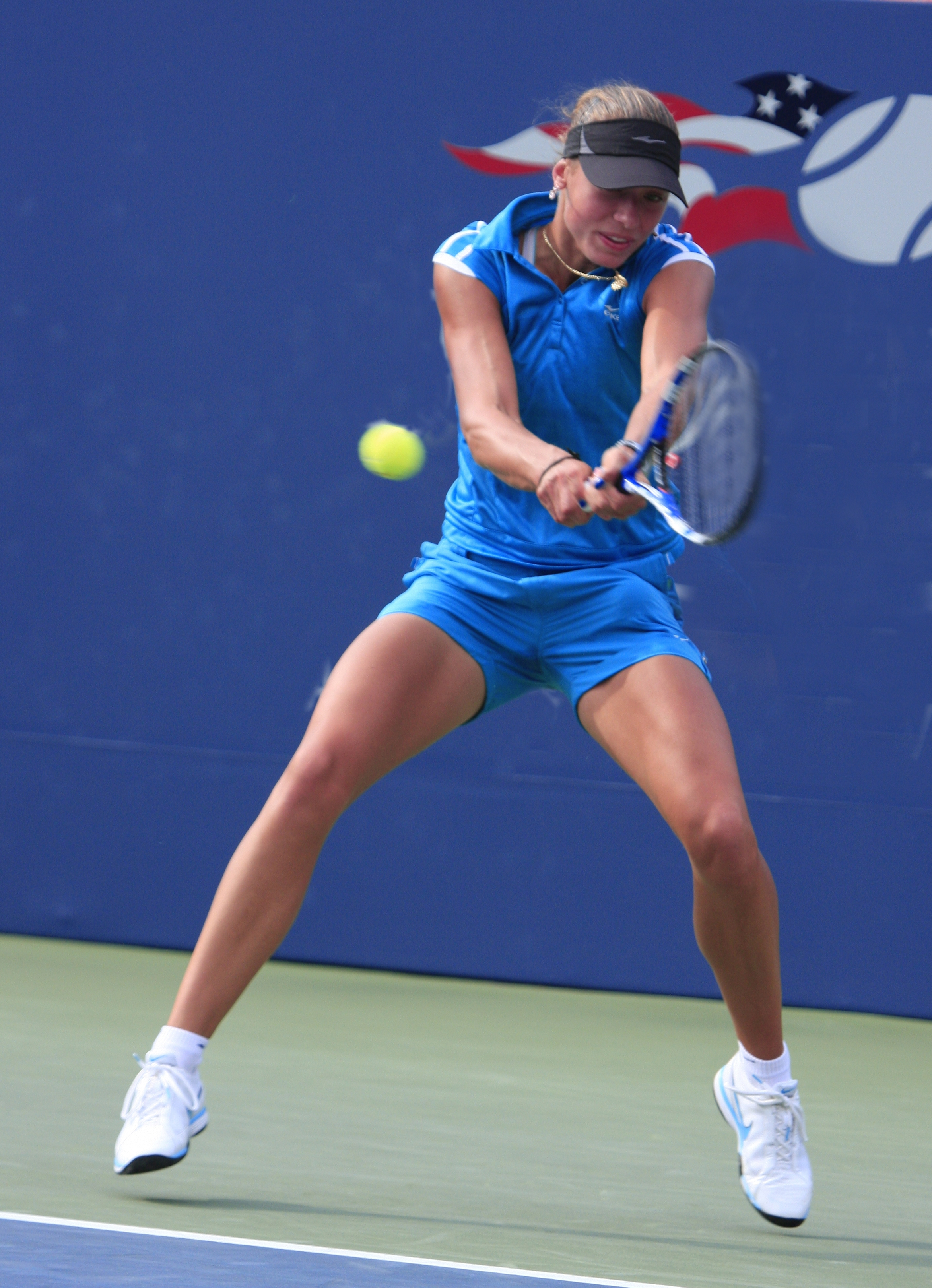 Yanina Wickmayer at the 2009 US Open